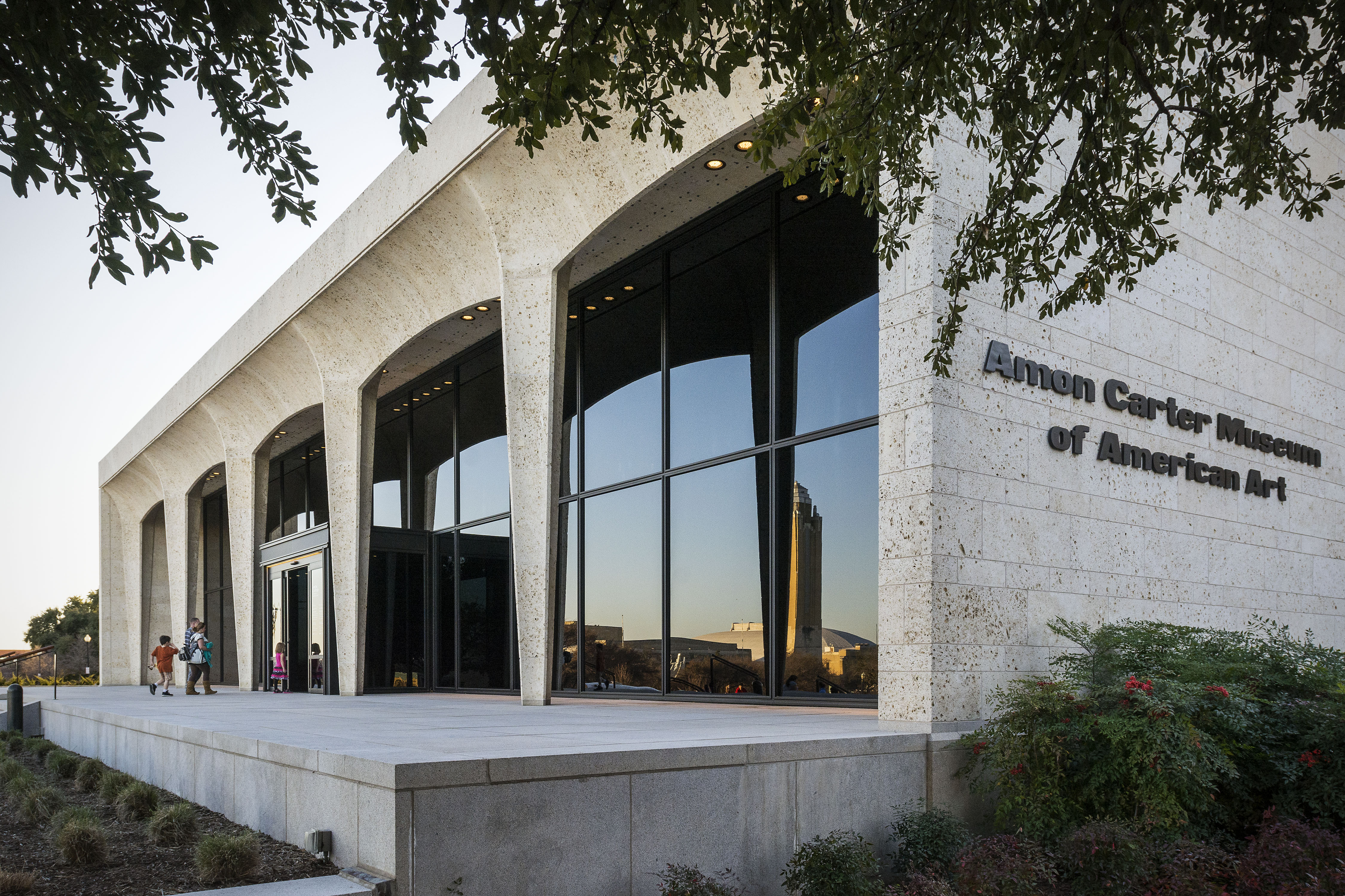 A family at the main entrance of the Amon Carter Museum of American Art in Fort Worth, Texas.